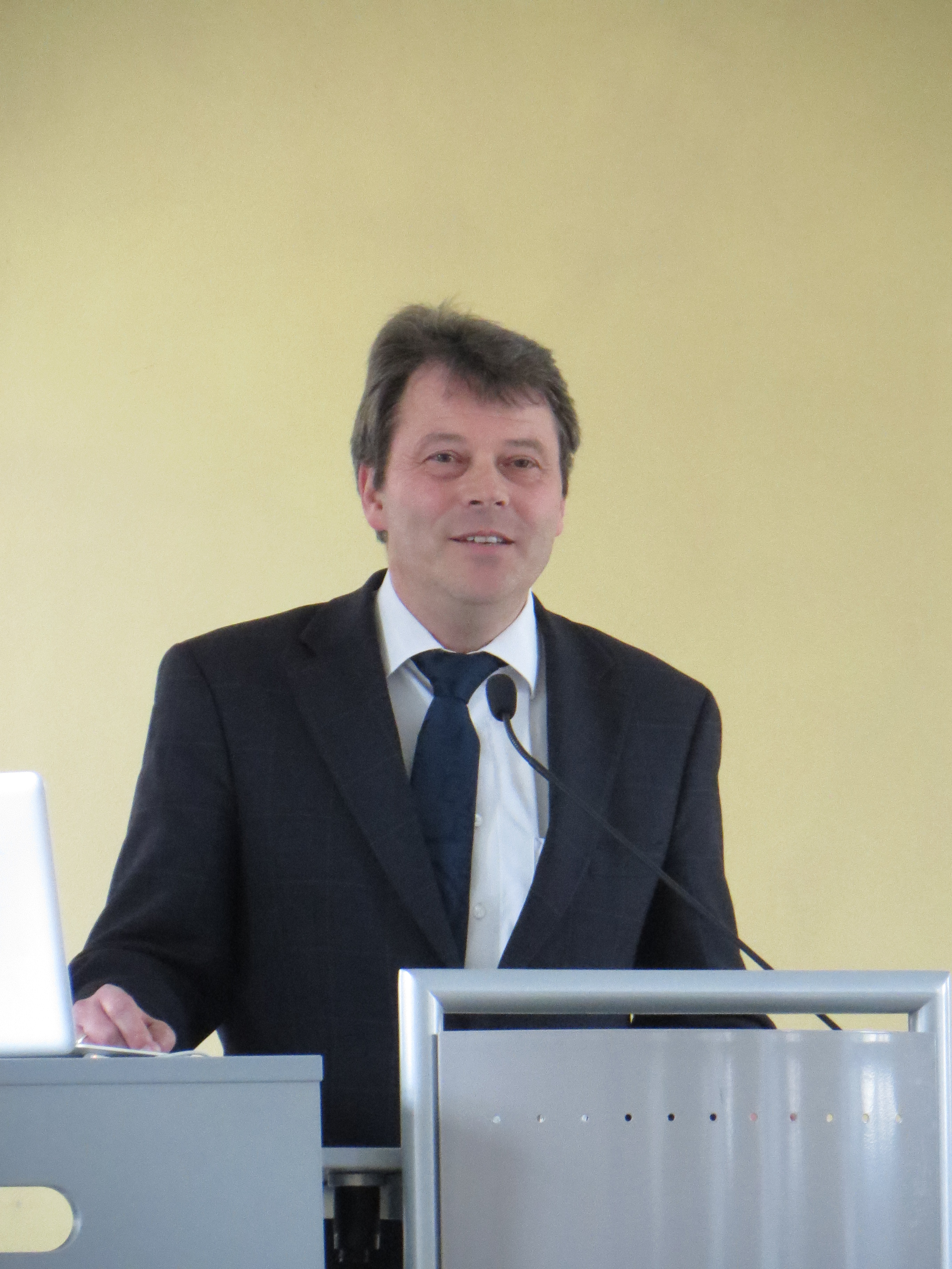 Prof. Dr. Stefan Beyerle